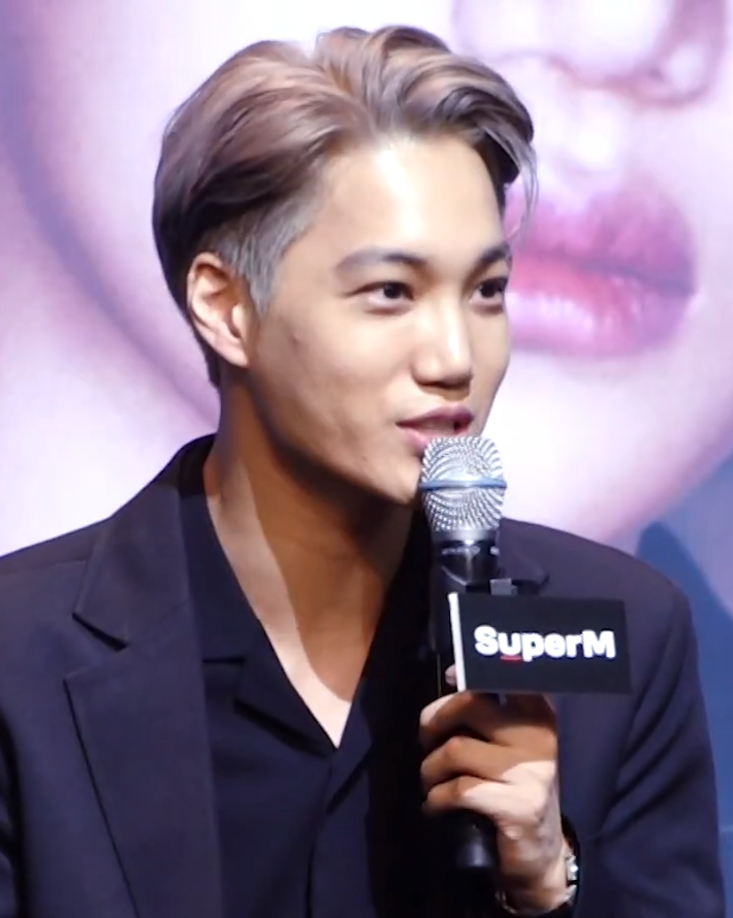 Kai at a Launching Press Conference on October 2, 2019.